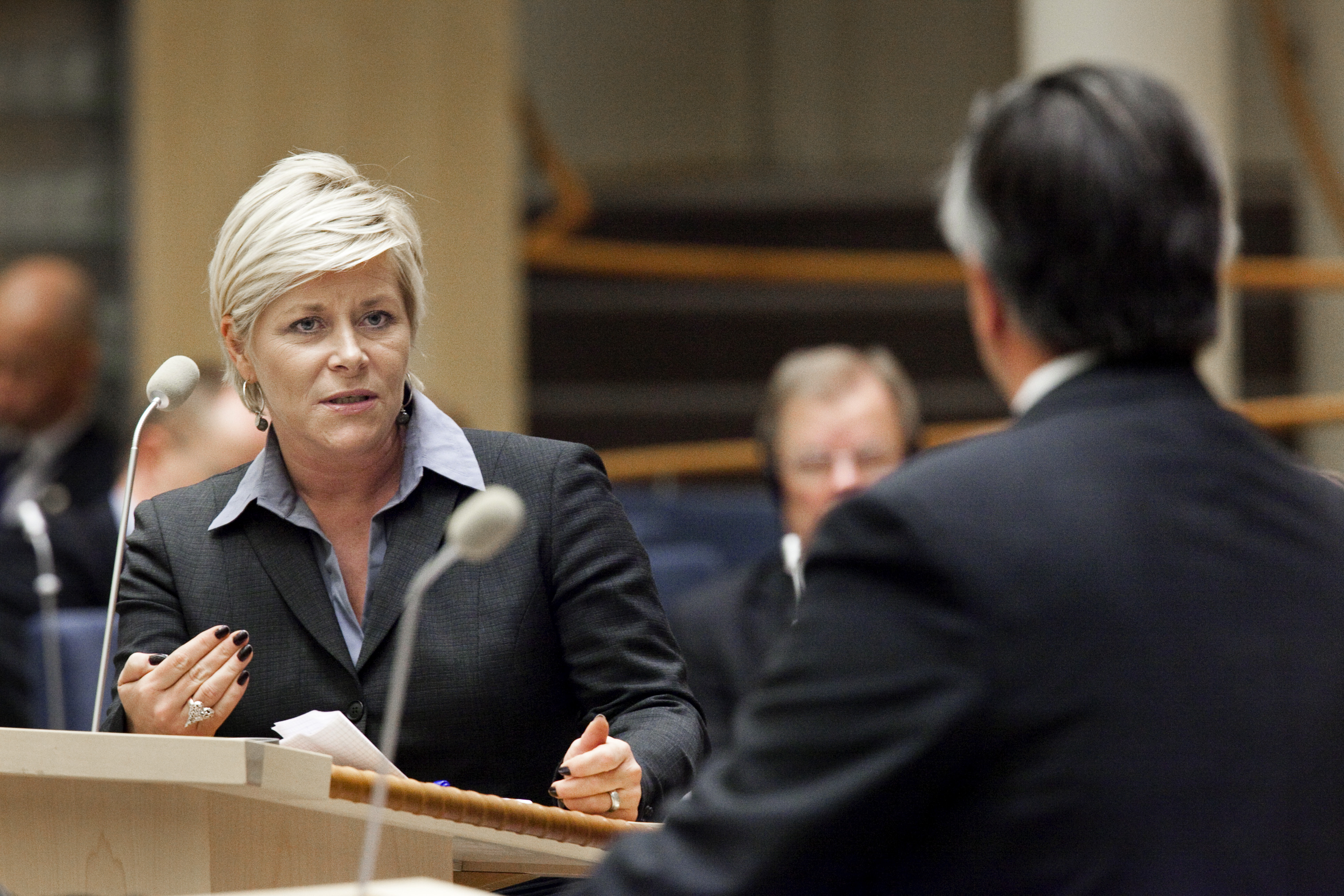 Siv Jensen debatterar under Nordiska rådets session i Stockholm 2009. Keywords: Sweden